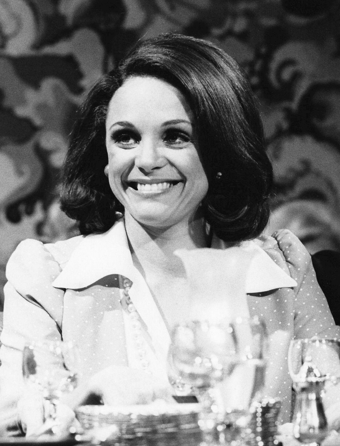 Photo of Valerie Harper as Rhoda Morgenstern.